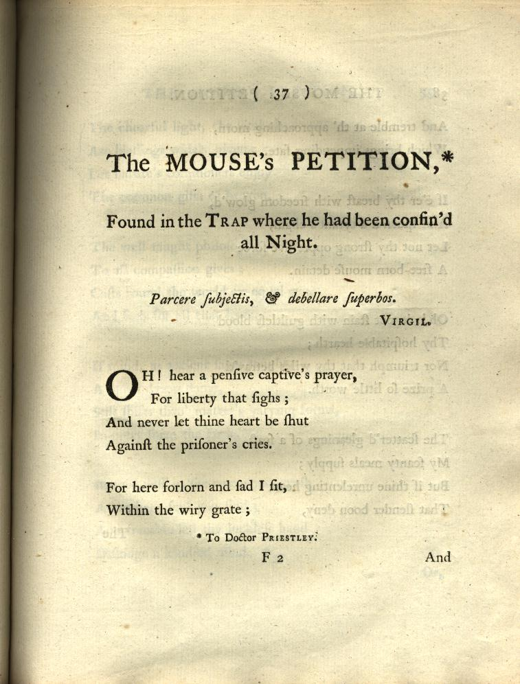 "The Mouse's Petition" by Anna Laetitia Barbauld